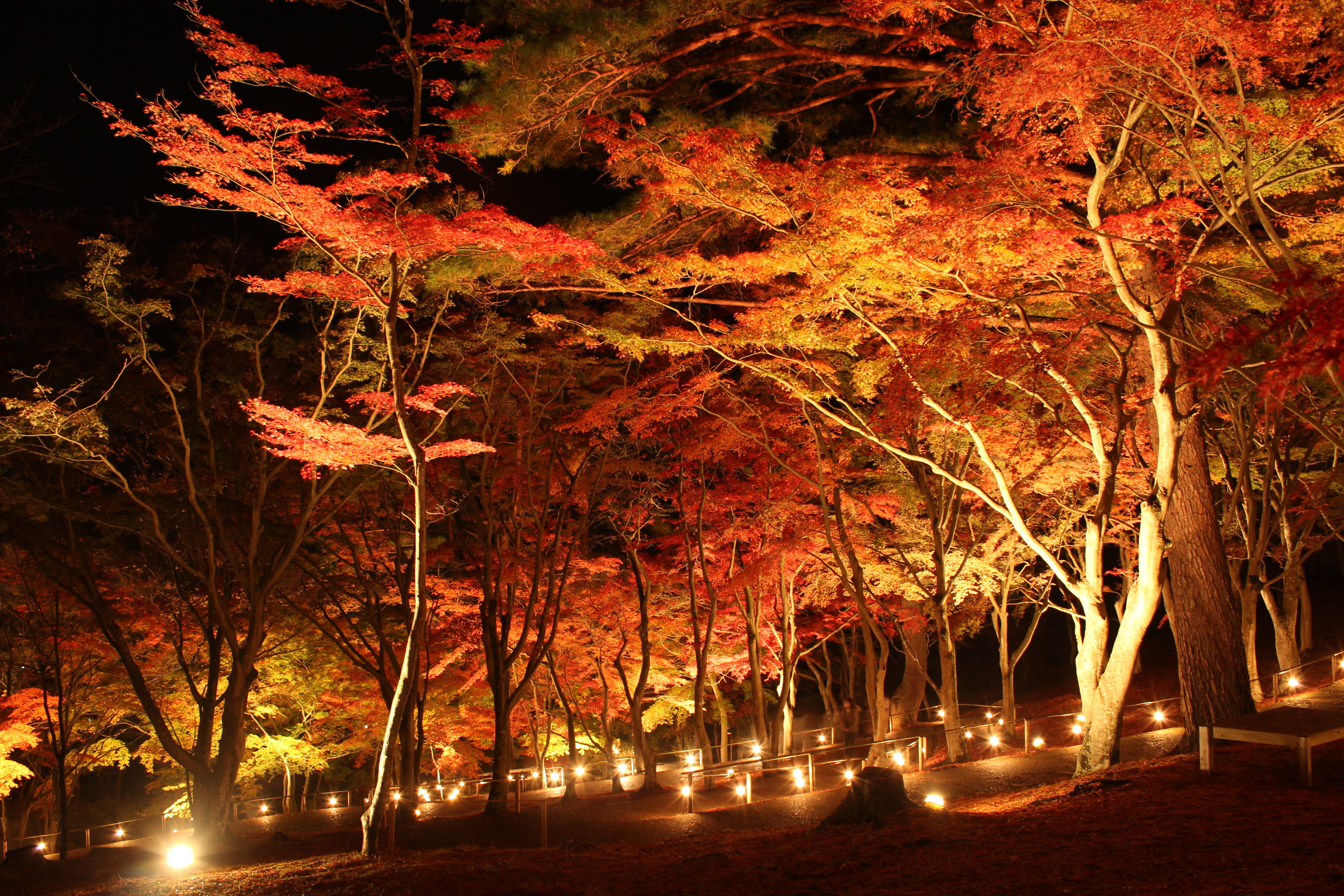 Illuminated autumn leaves in Shuzenji Nijinosato.